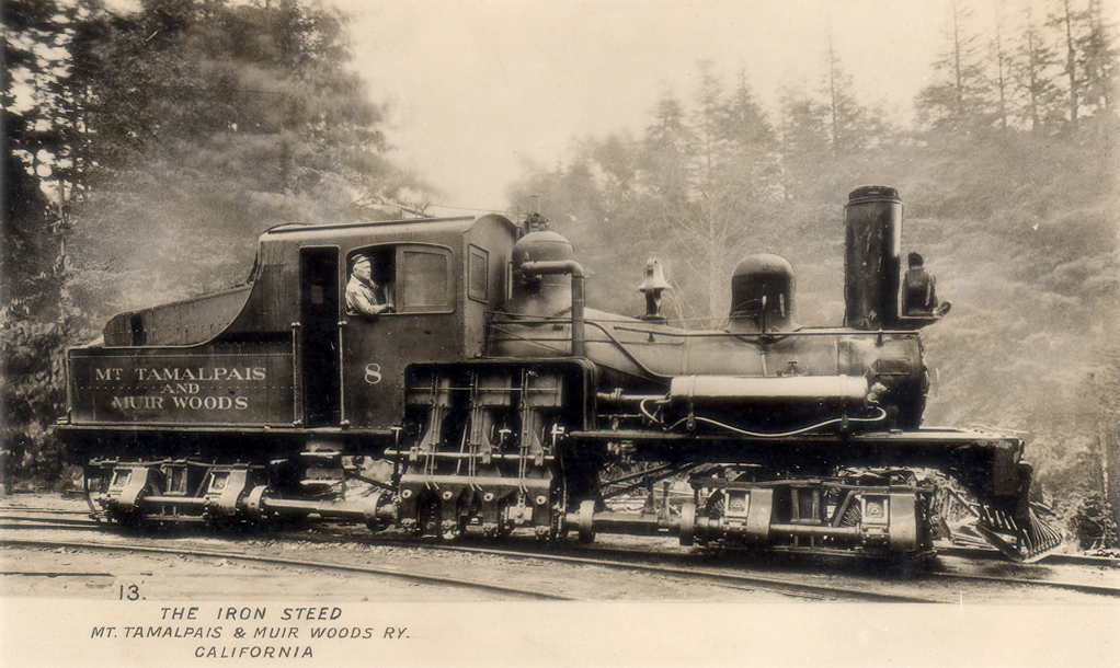 Shay locomotive No. 8 of the Mount. Tamalpais and Muir Woods Railroad on tracks just outside the Railroad's shops in Blithedale Canyon. Card has no copyright marks